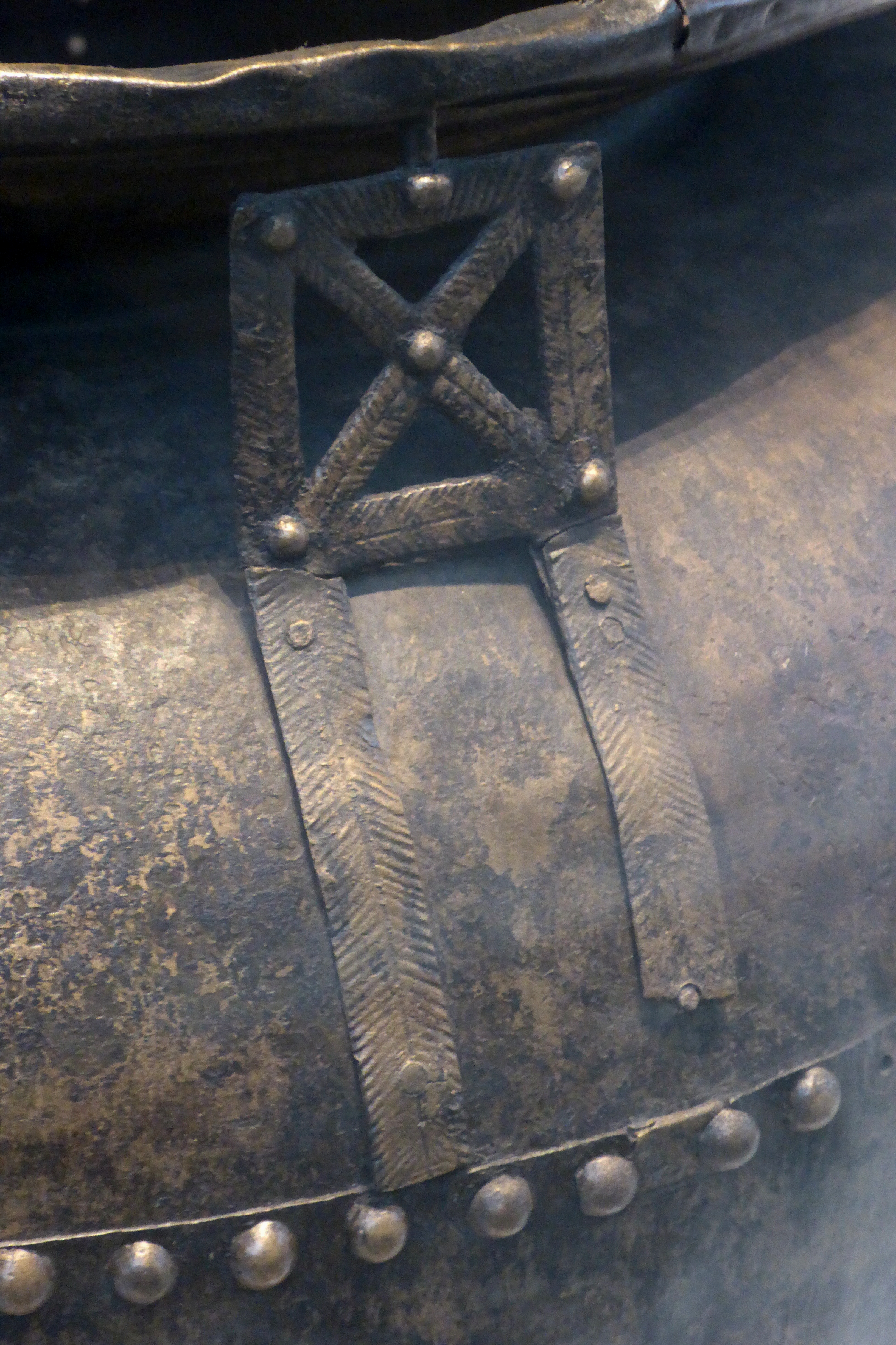 Iron Age Battersea cauldron on display at the British Museum in Bloomsbury, London Borough of Camden.